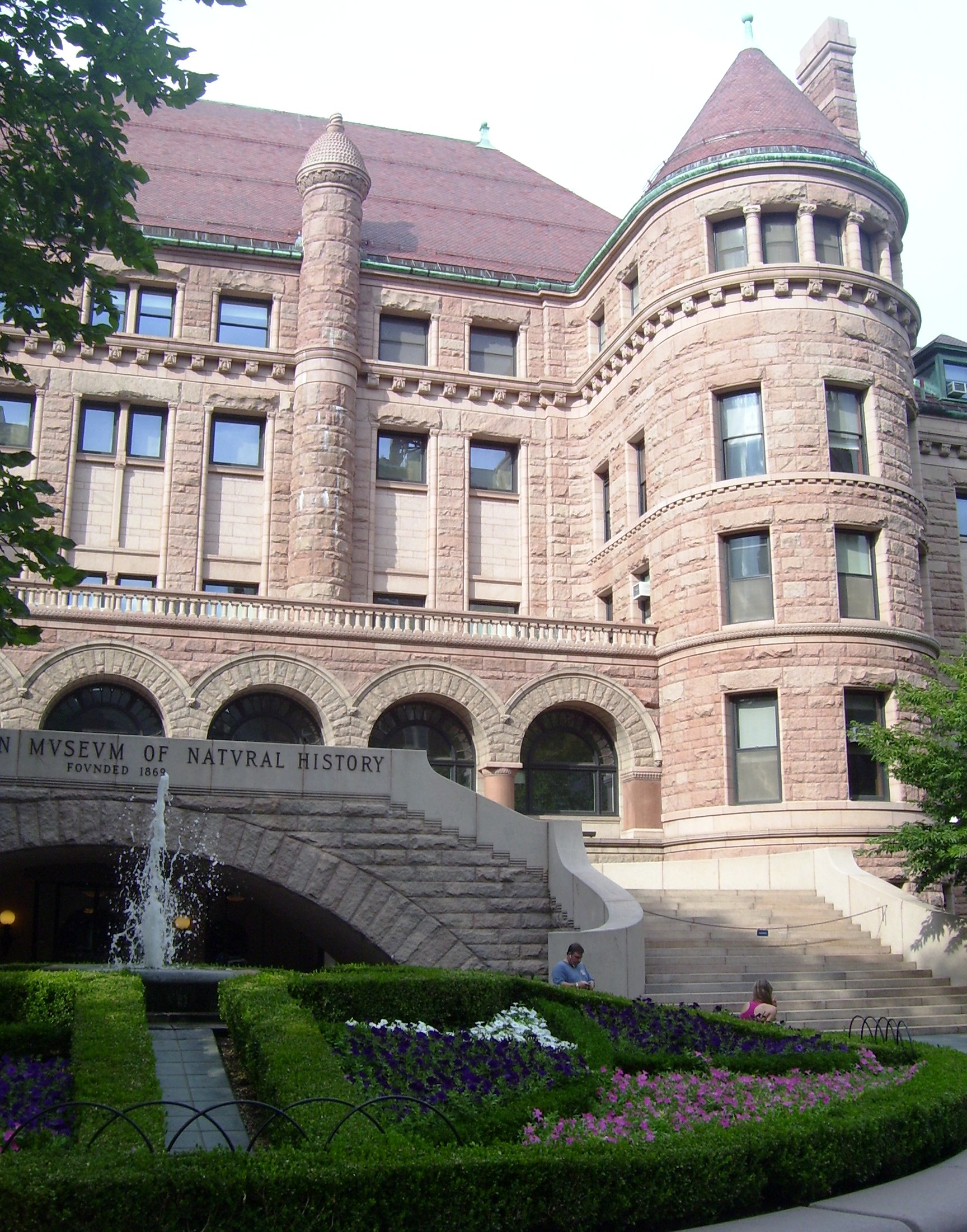 The West 77th Street entrance to the American Museum of Natural History, between Central Park West and Columbus Avenue on the Upper West Side of Manhattan, New York, looking northeast